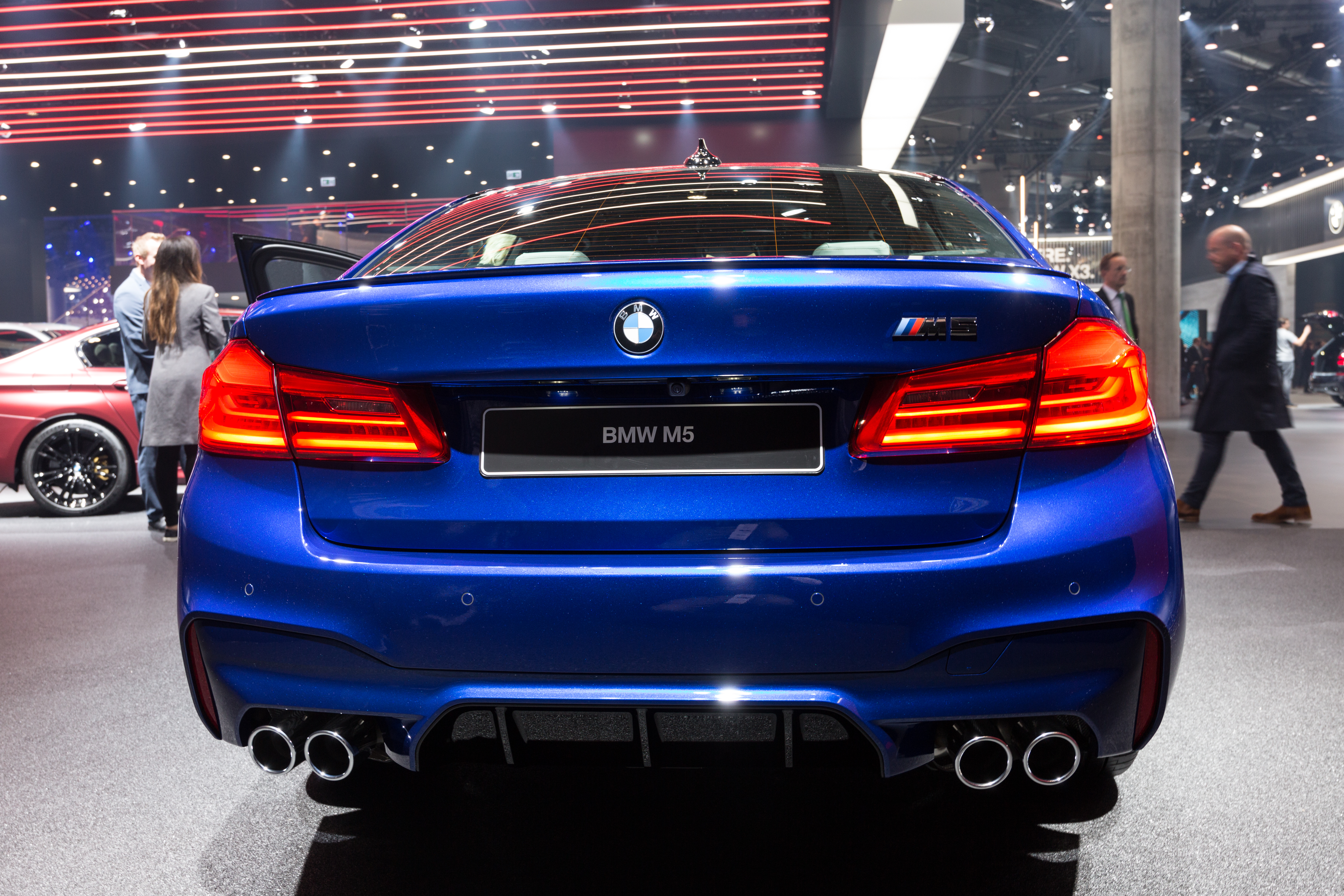 BMW M5, IAA 2017